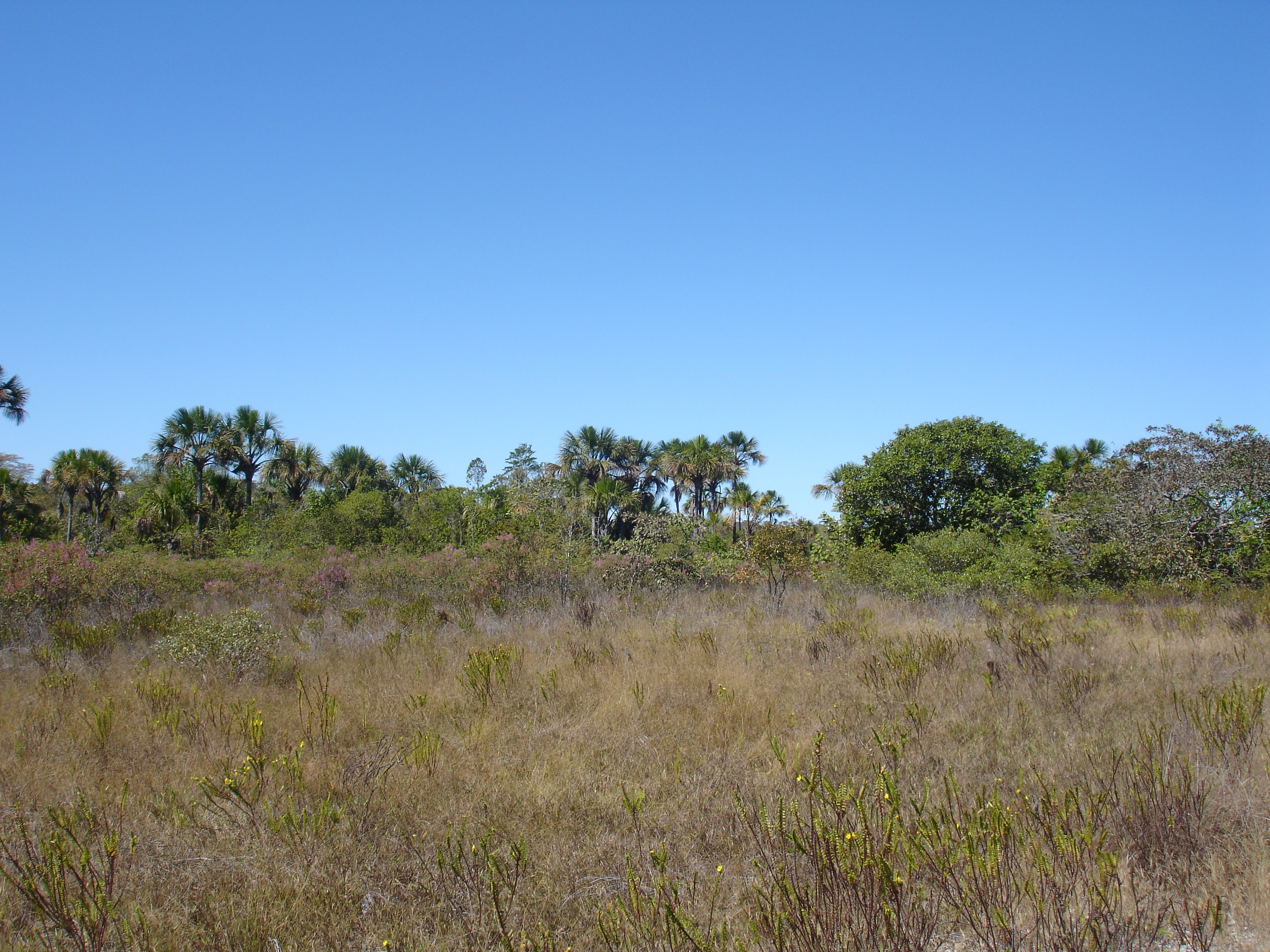 Another landscape